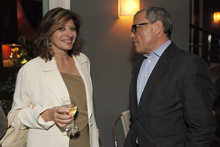 Photo Credit: ©charlotte valade